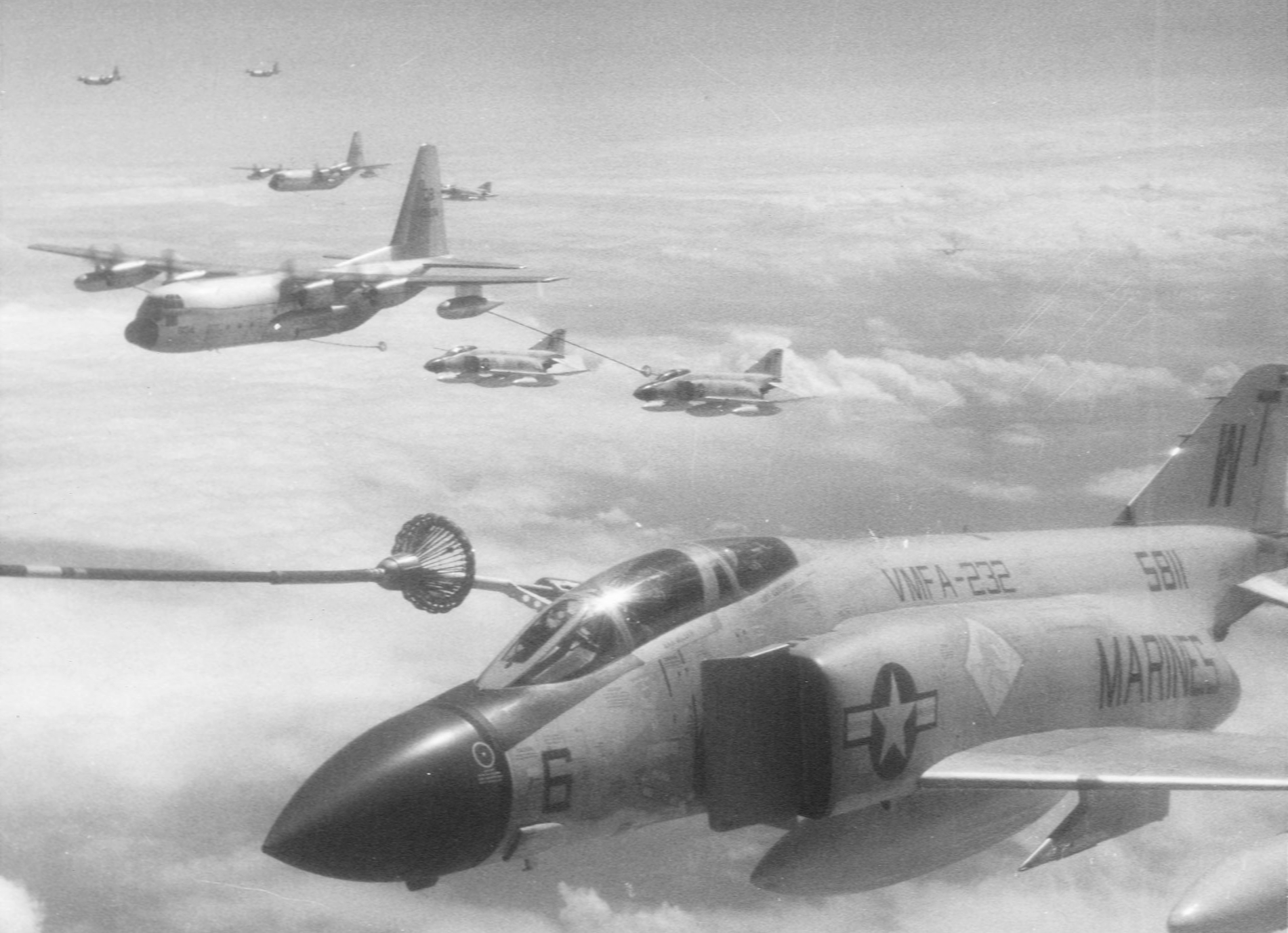 McDonnell Douglas F-4J Phantom II fighters of U.S. Marine Corps fighter-bomber squadron VMFA-232 Red Devils being refueled on a trans-Pacific flight over Johnston Island by Marine Lockheed KC-130F Hercules tankers, ca. 1972. Nearest to the camera is F-4J BuNo 155811. This aircraft was shot down by a North Vietnamese MiG-21 with an "Atoll"-missile on 26 August 1972. The F-4J was downed on the border of Laos and Vietnam in Houa Phan Province near the city of Sop Hoa, the only Marine jet ever to be lost to enemy aircraft during the Vietnam War. The crew ejected, the pilot 1st Lt Sam Gary Cordova was captured and died in captivity, the RIO 1st Lt Darrell L. Borders was rescued. The NVAF pilot who shot the plane down was Nguyen Duc Soat of the 3rd Company, 927th Fighter Regiment, and it was his fifth of six aerial kills.